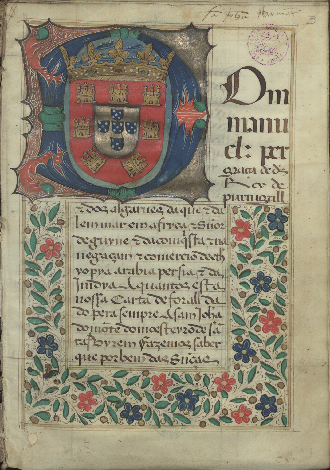 Town Charter of São João do Monte, dated 6 May 1514.